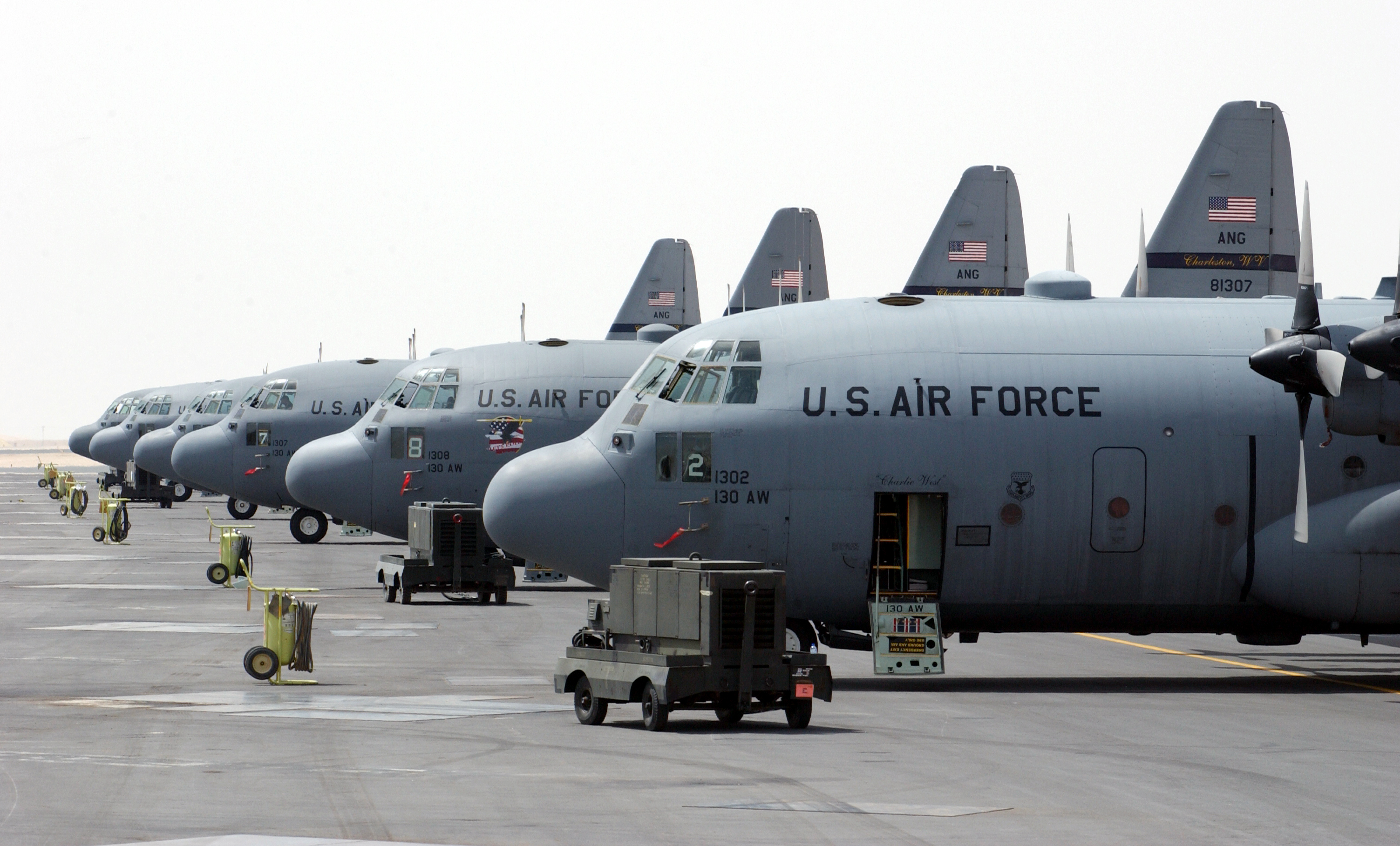 U.S. Air Force Lockheed C-130 Hercules sit on the ramp at a forward-deployed location supporting stabilization efforts inside Iraq. The aircraft are from the West Virginia Air National Guard's 130th Airlift Wing at Charleston.